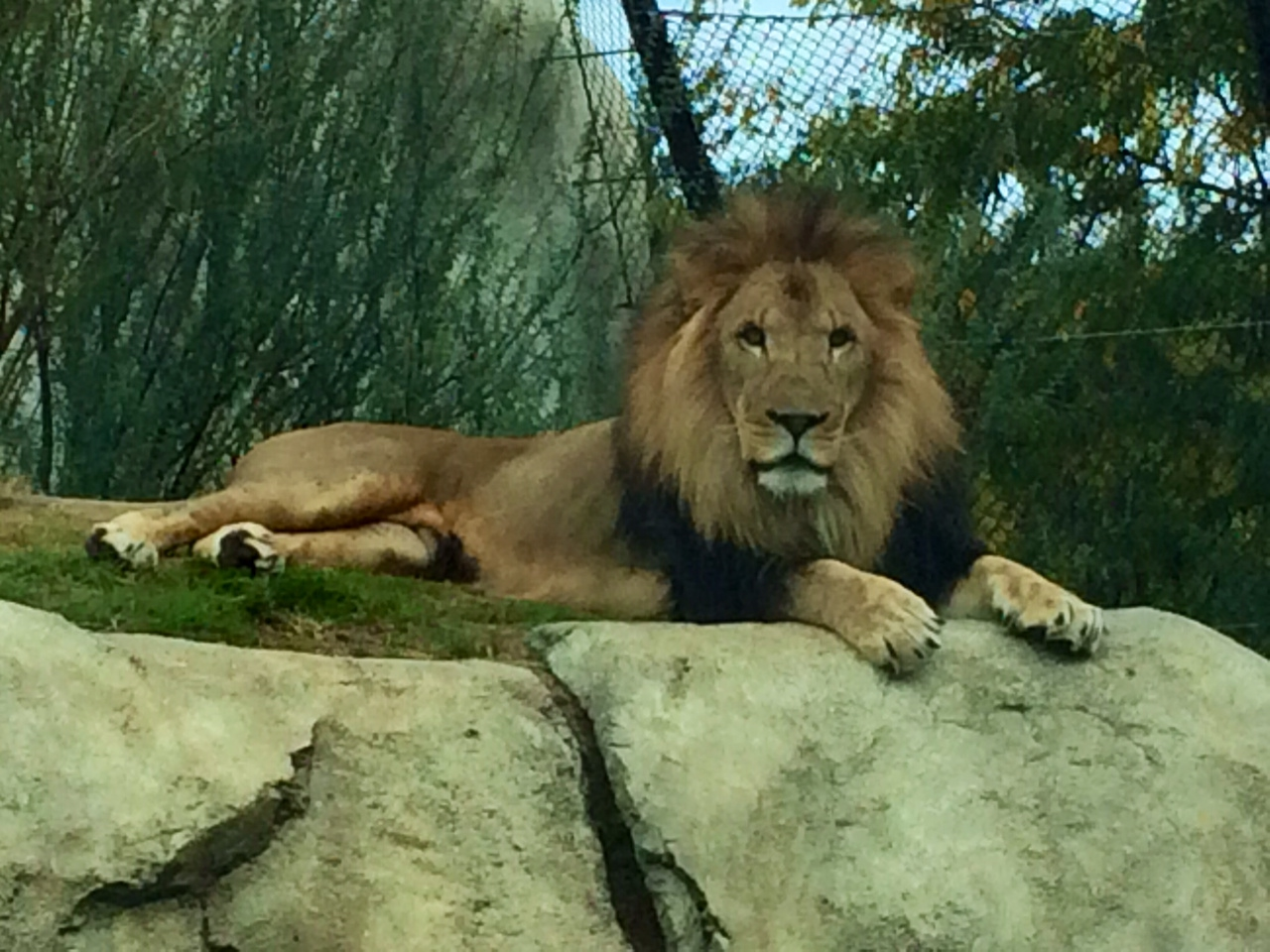 Lion lying on rock